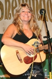 Michelle Nixon Bluegrass artist performing at Nothin' Fancy Festival September 2008 taken by Jim Ellis